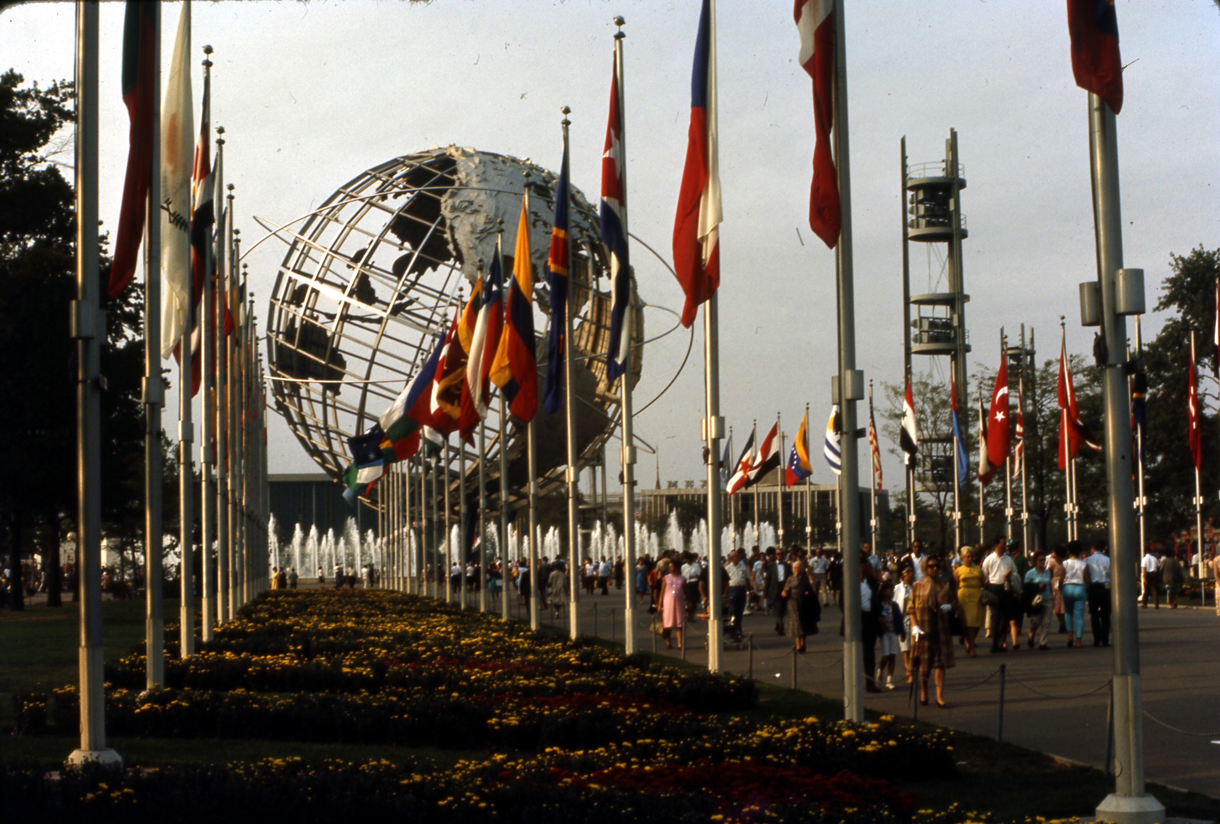 New York (USA). World's Fair 1965. View of the Unisphere with world flags